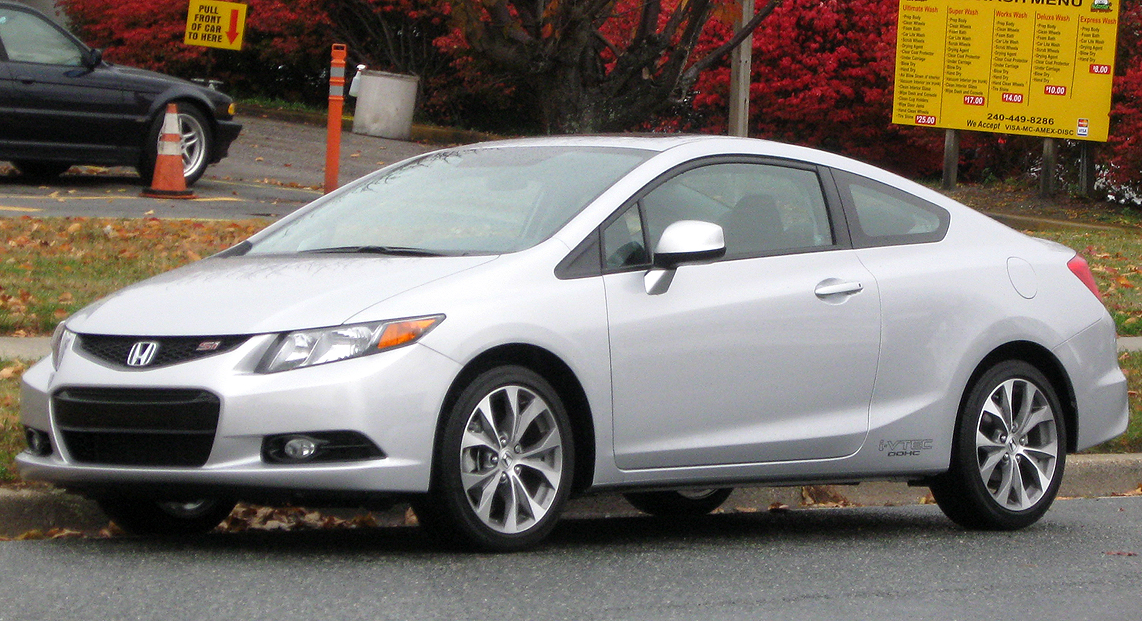 2012 Honda Civic photographed in Silver Spring, Maryland, USA.